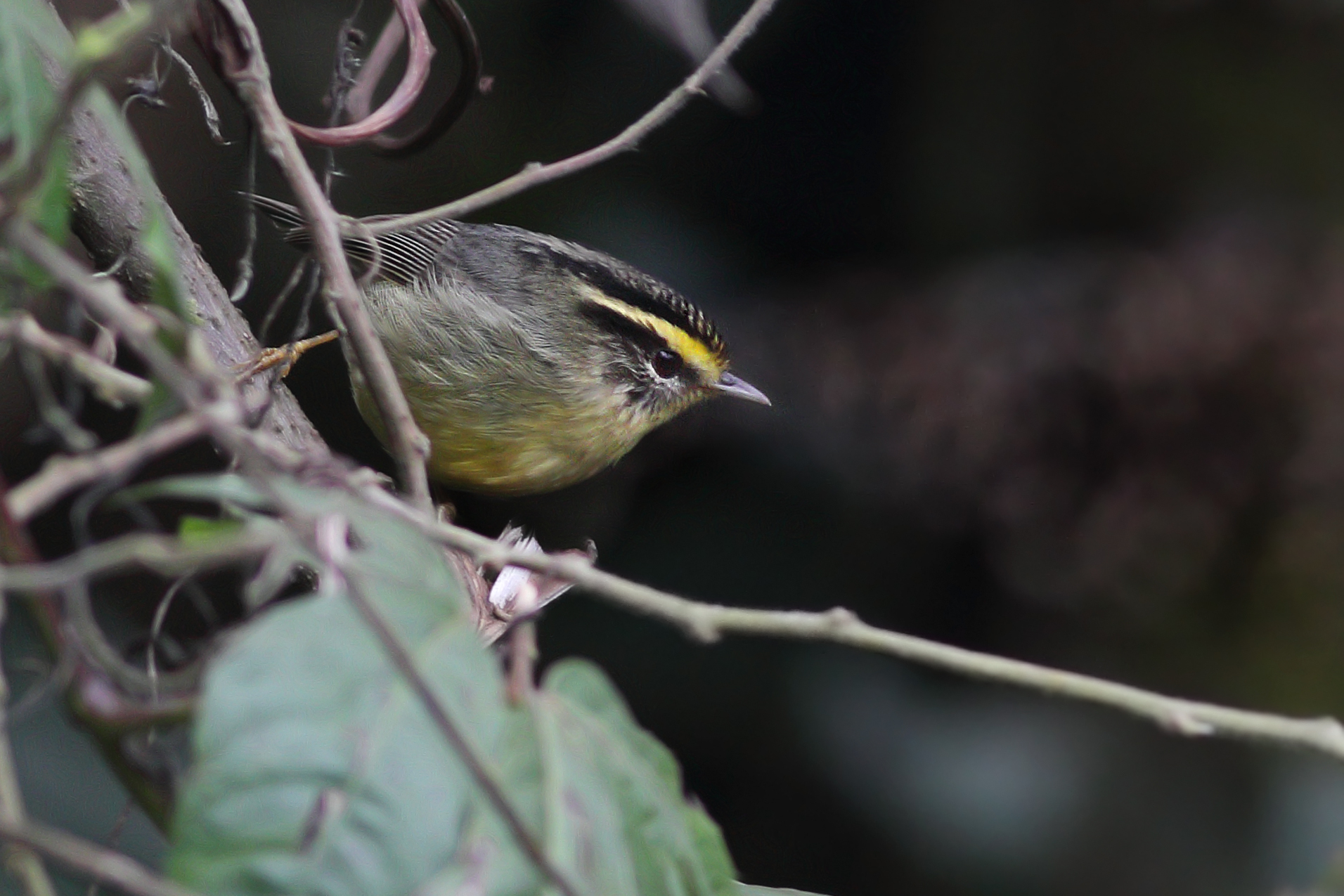 The bird Yellow-throated Fulvetta had been photographed from Eaglenest Wildlife Sanctuary in Arunachal Pradesh, India on 21.03.2019 during bird watching tour of GoingWild (